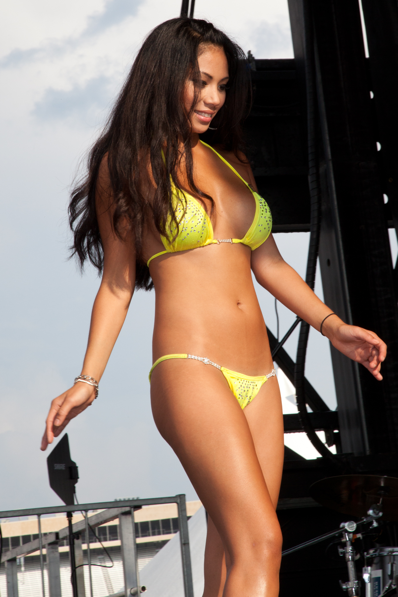 Hot Import Nights - NOPI at the Atlanta Motor Speedway in Atlanta, Georgia on Saturday, 31 July 2010.